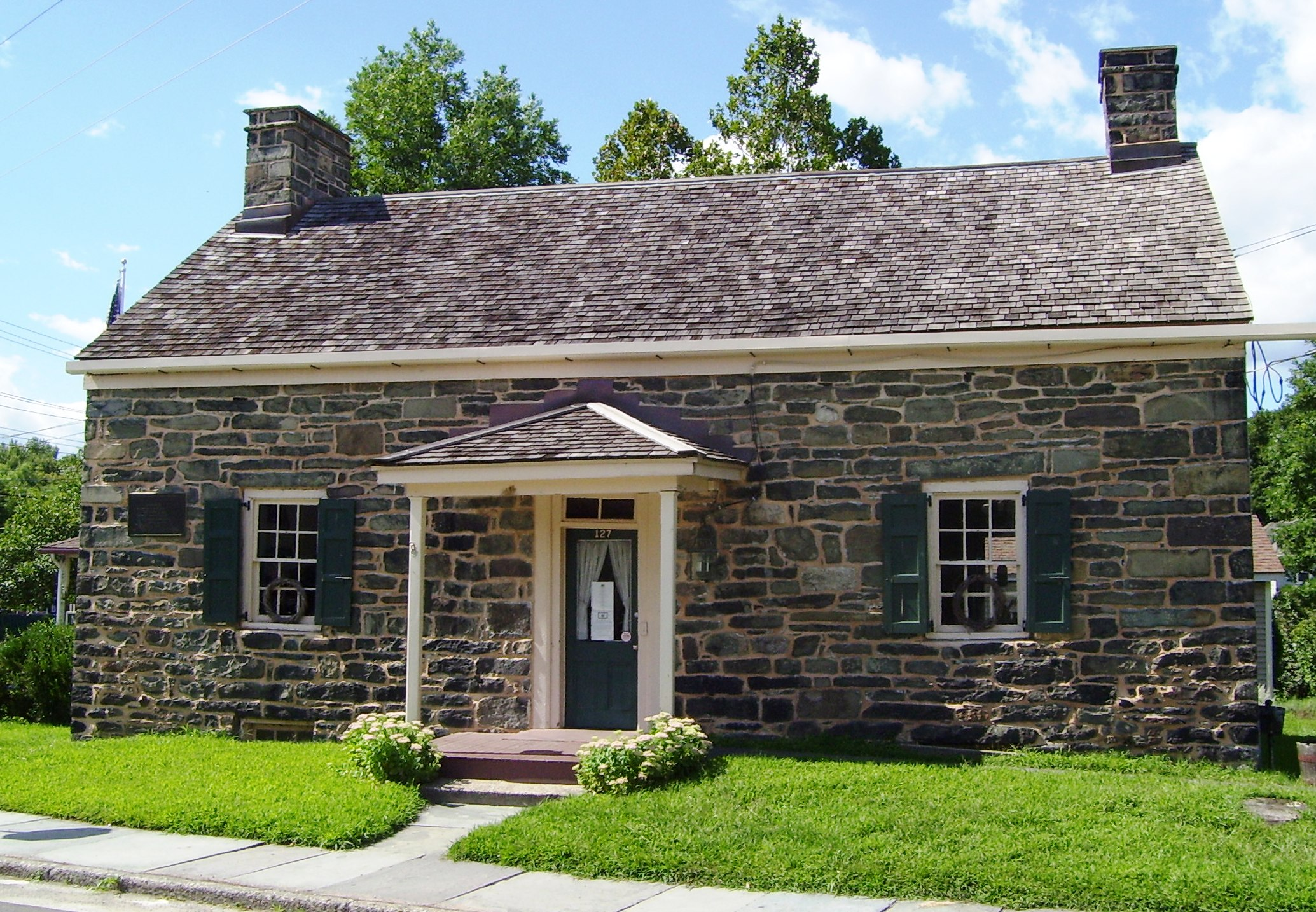 Fort Decker in Port Jervis, New York is a stone house built from the remains of the original fort by that name. The original was built before 1760, and was burned down in a raid in 1779 during the Revolutionary War. The house was bult in 1793 and is the oldest building in Port Jervis, predating the town itself. It is currently a museum run by the local historical society, and has been on the National Register of Historic Places since 1974.